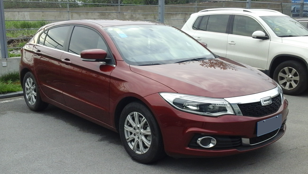 Qoros 3 hatch photographed in Shanghai, China.